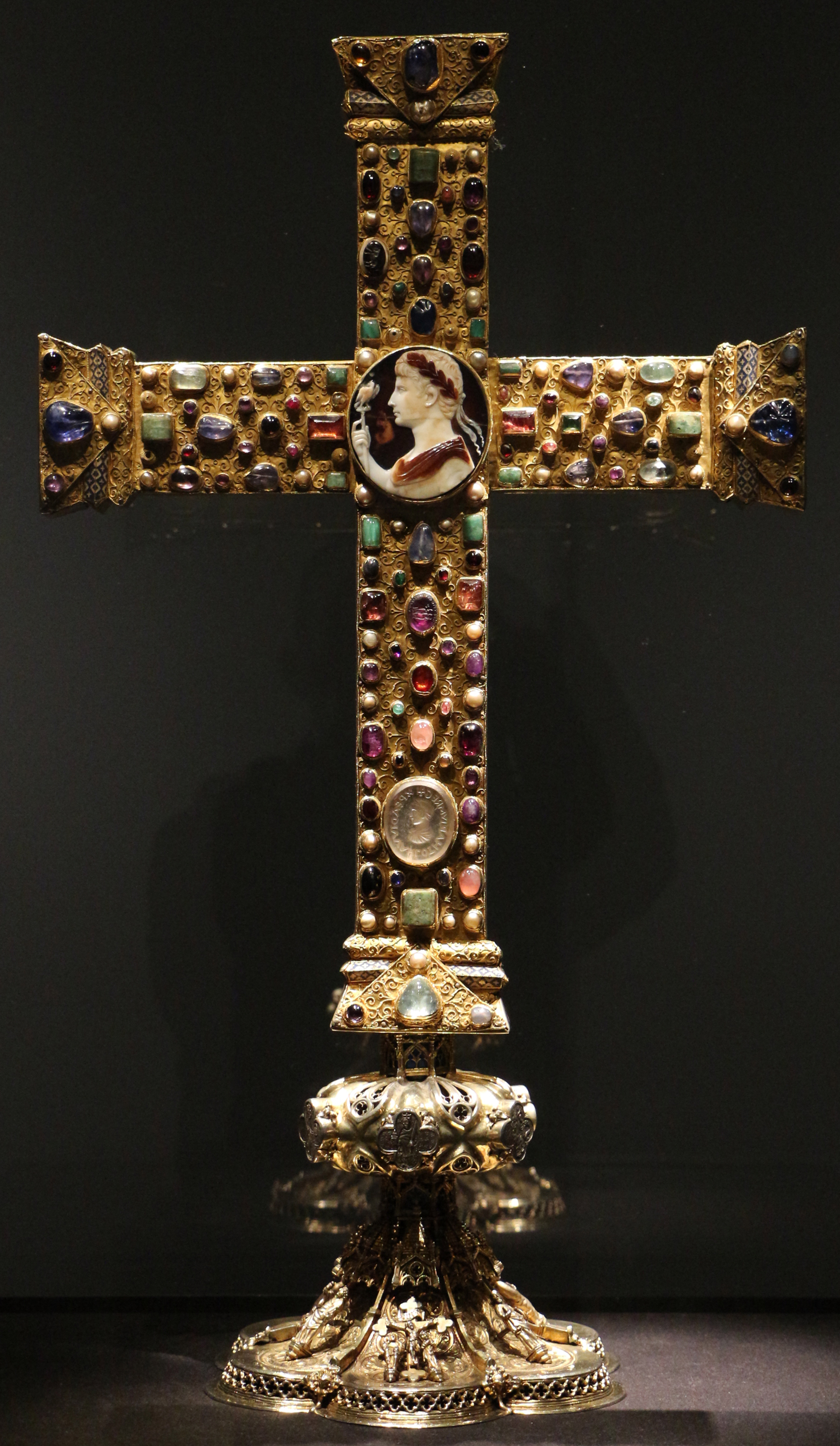 Domschatz, Aachen